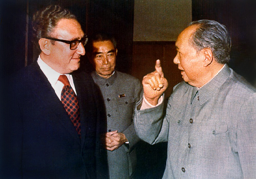 Henry Kissinger and Chairman Mao, with Zhou Enlai behind them in Beijing, early 70s.